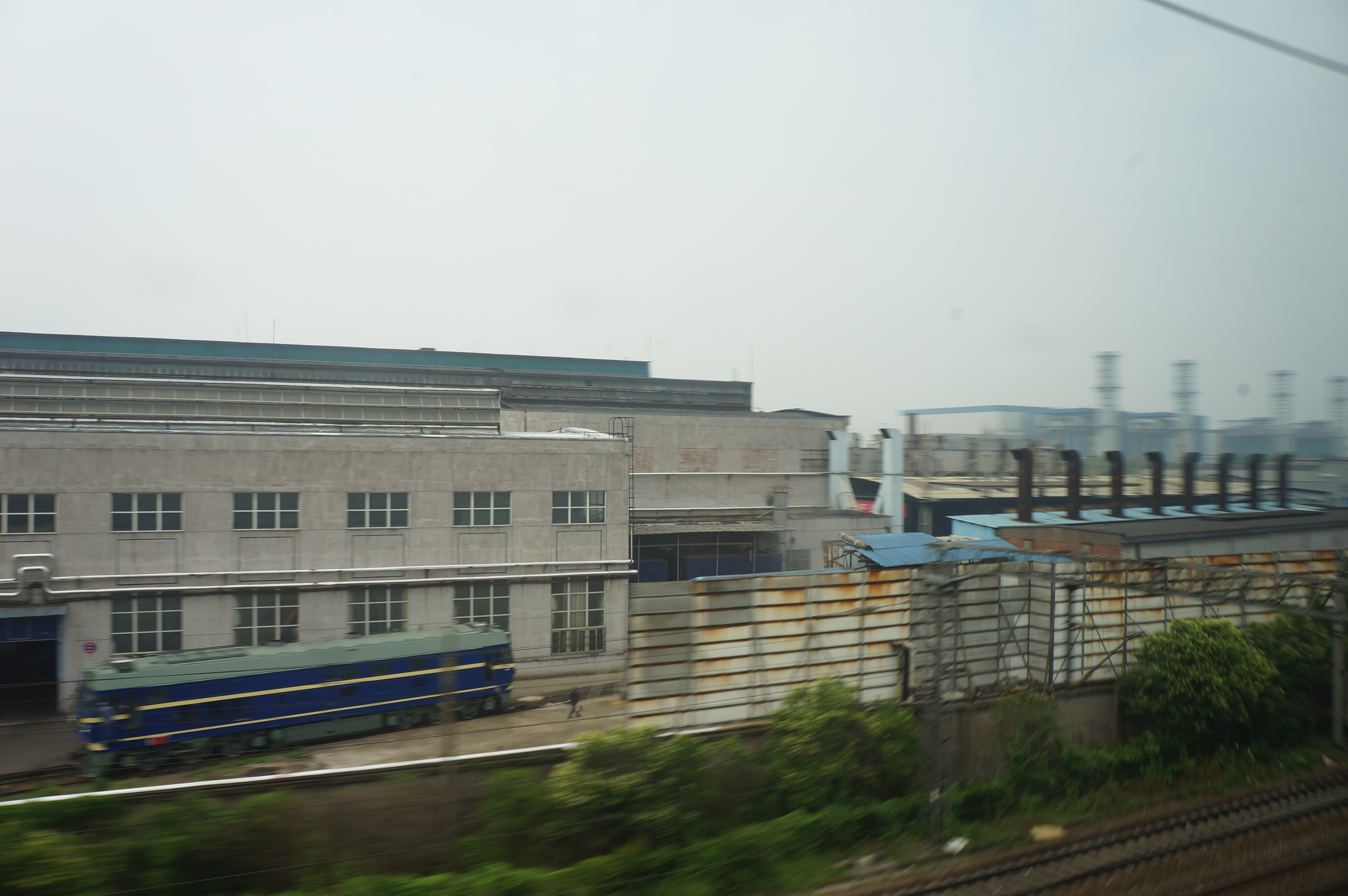 201706 Qishuyan Locomotives